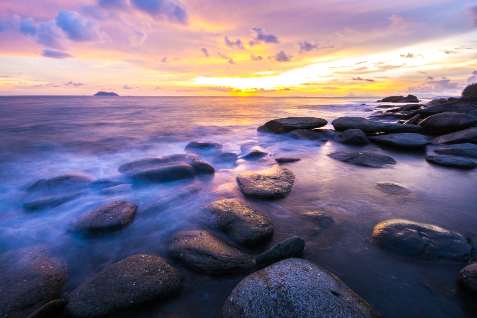 อุทยานแห่งชาติแหลมสน